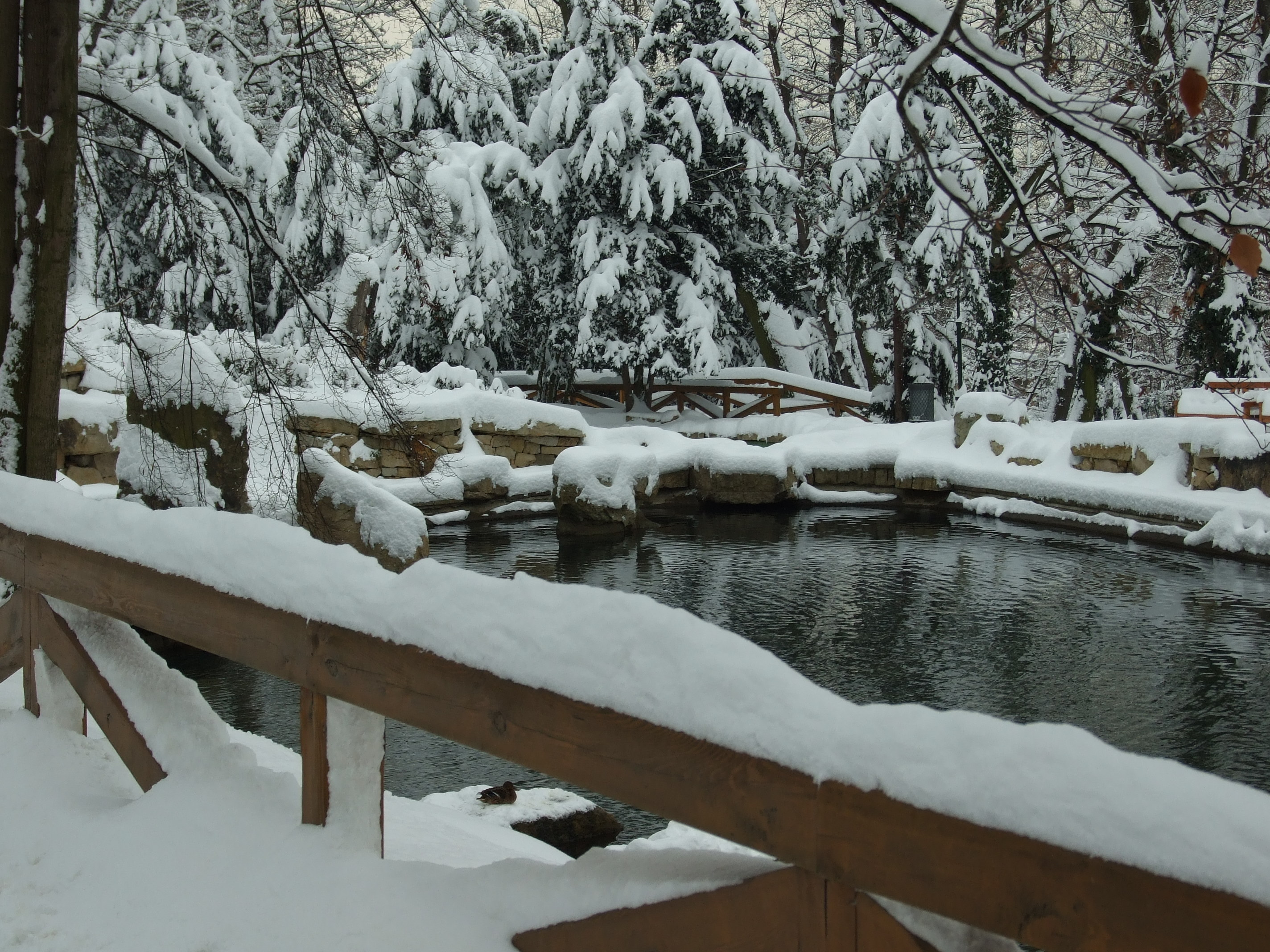 Kinského zahrada park in Prague-Smíchov covered by snow in January 2010. Prague, CZhelp